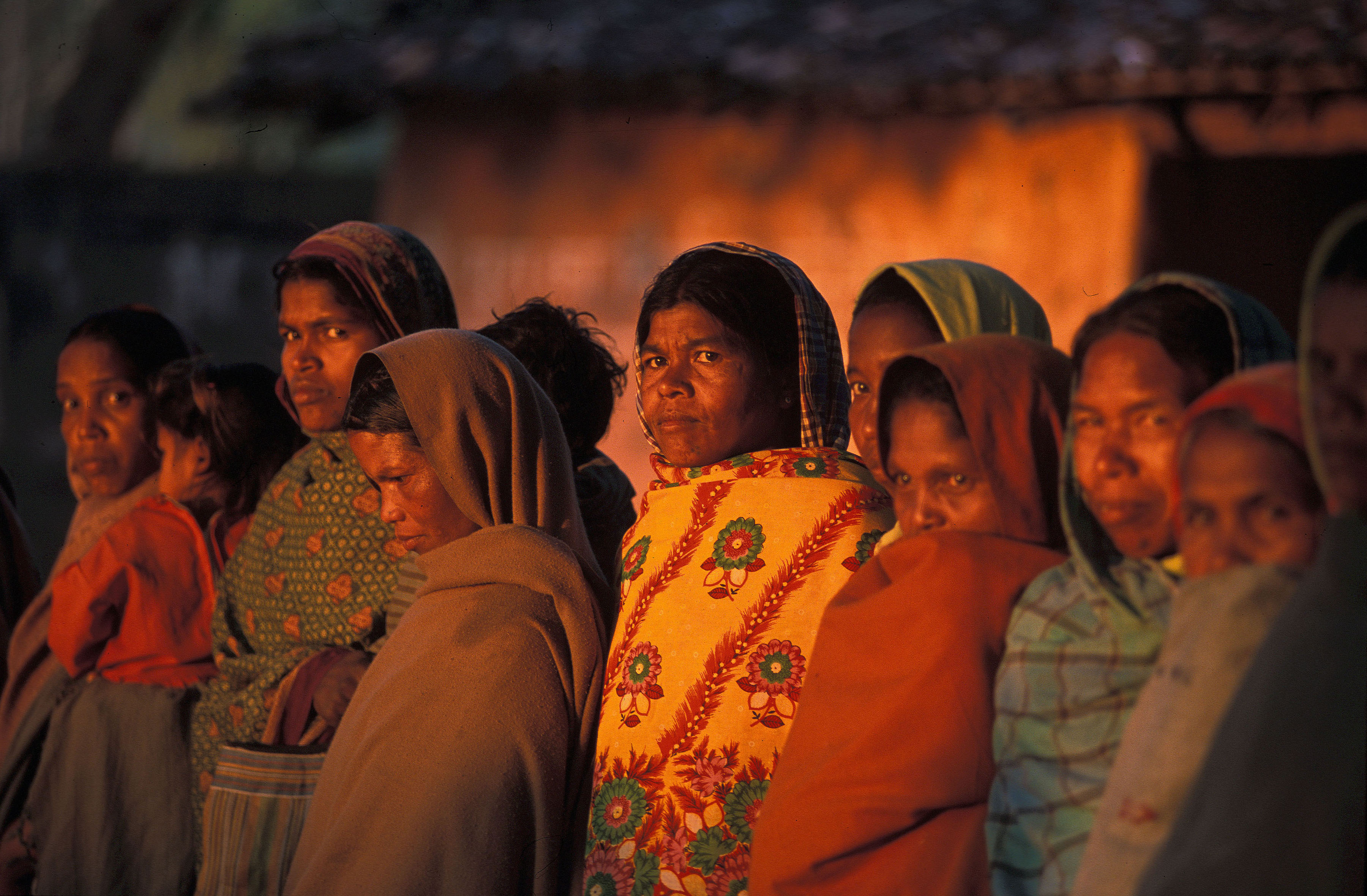 Women in Deogarh morning, Orissa, India.